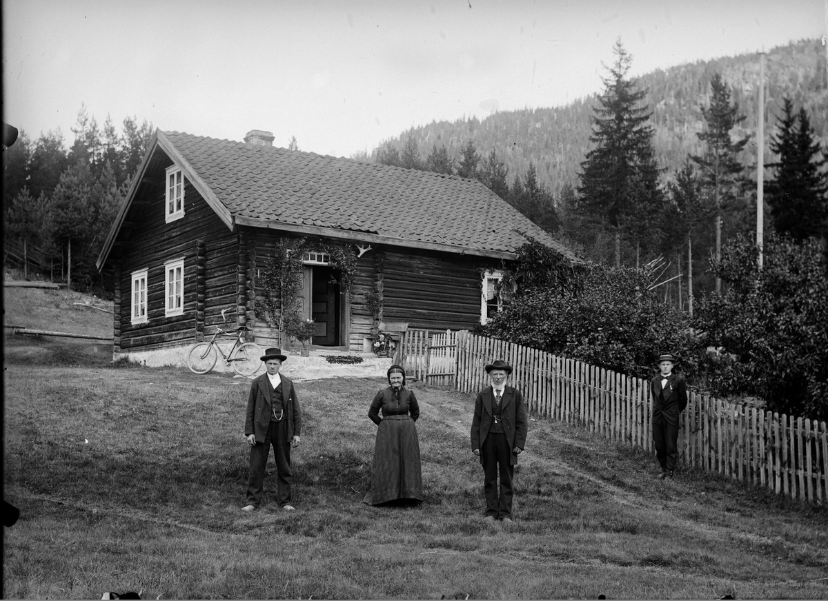 Bjørnholt (lit. "Bearwood") farm in Jondalen in today's Kongsberg municipality in 1899. Photographed by Gullik Rua (1877–1931).